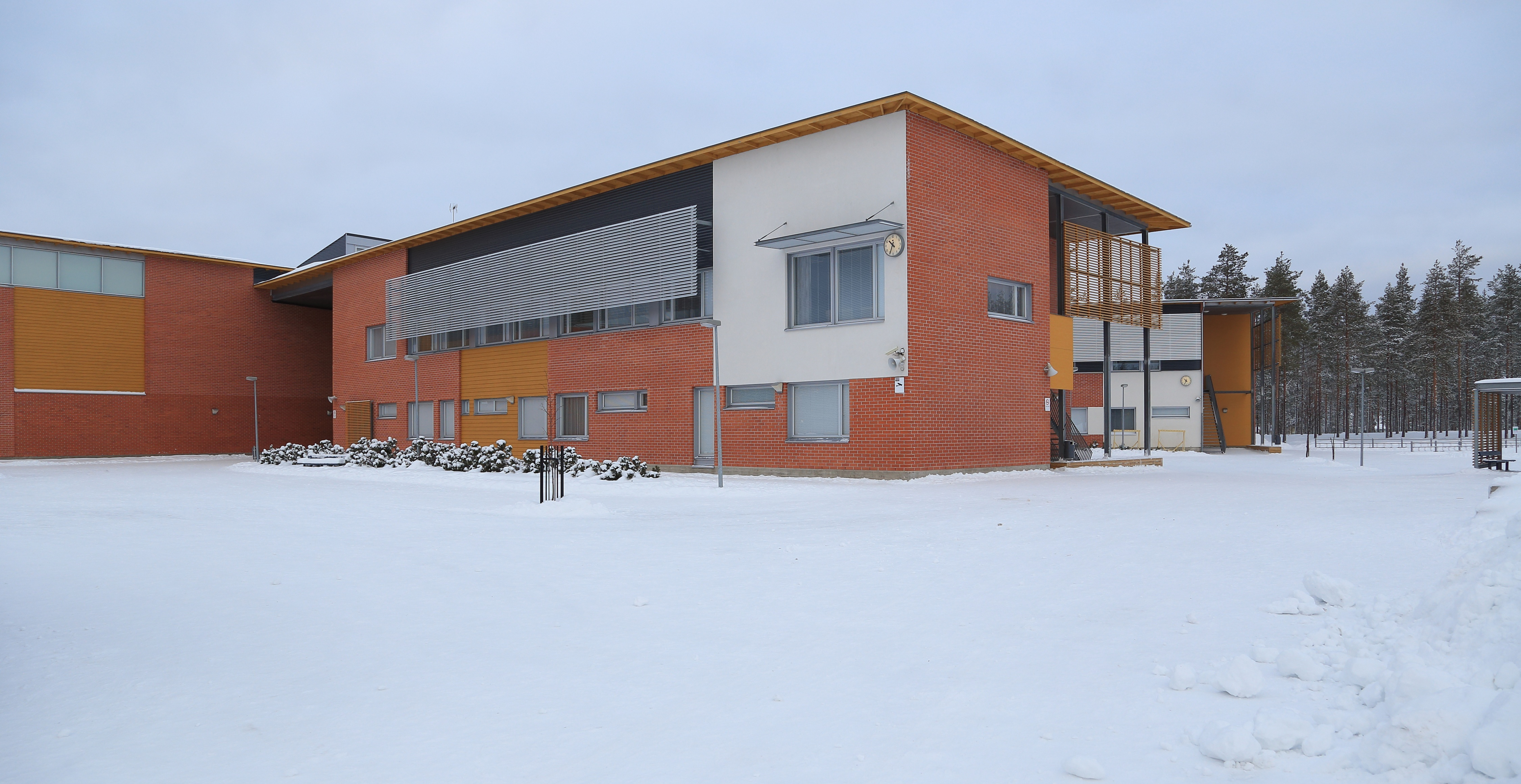 Laivakangas School in Jäälinkylä, Oulu.